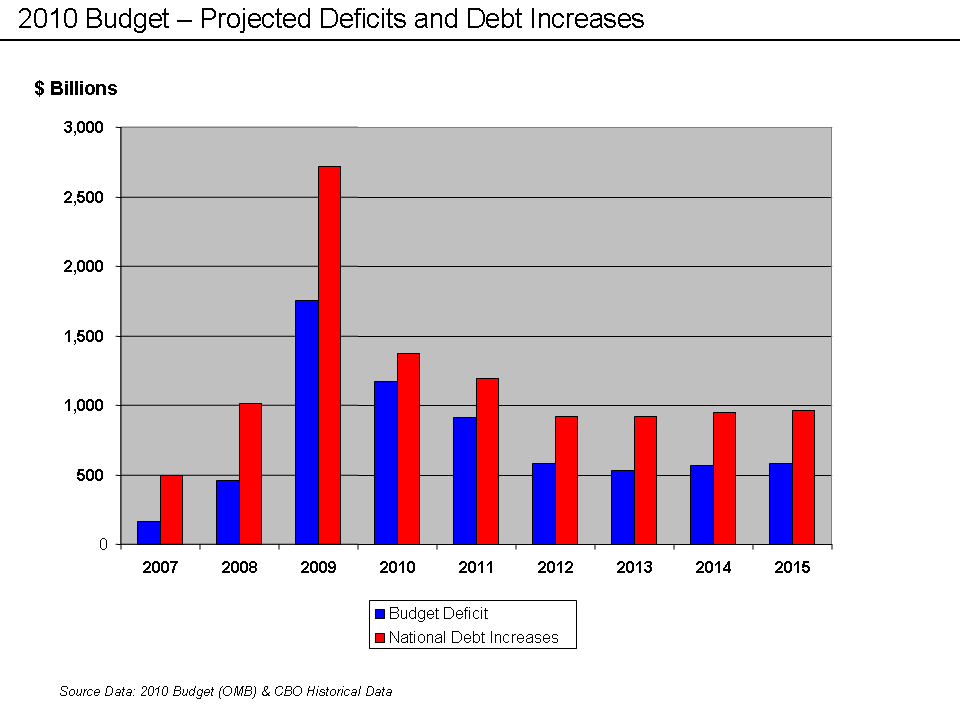 2010 Budget Deficit vs. Debt increases Source Data 2010 Budget: 2010 Budget - See table S9 for debt and S1 for Deficits 2008-2015 and beyond. 2007 CBO Data: CBO Data - See page 12 of 13 for 2007 deficit